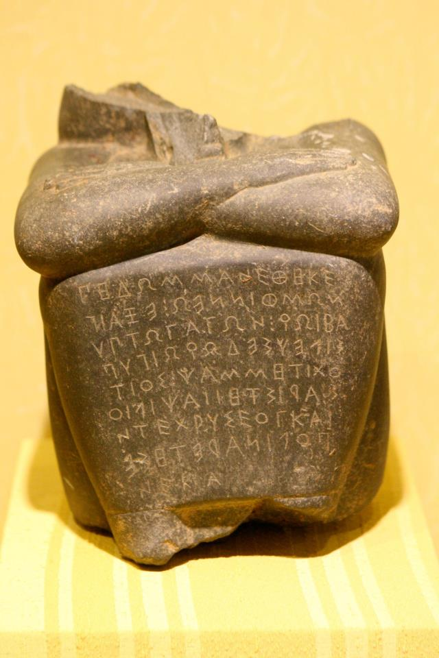 Contemporary, 7th century statue of Egyptian pharaoh Psamtik from the Hieropolis Archeology Museum in Pamukkale, Turkey. Statue was originally found in Kale. The inscription is written in Ionian Greek and reads, "Pedon son of Amphimeos set me up as a votive, having brought [me] back from Egypt; and to him Psammetichos, king of Egypt, gave as prizes a golden armlet and a city on account of his valor."